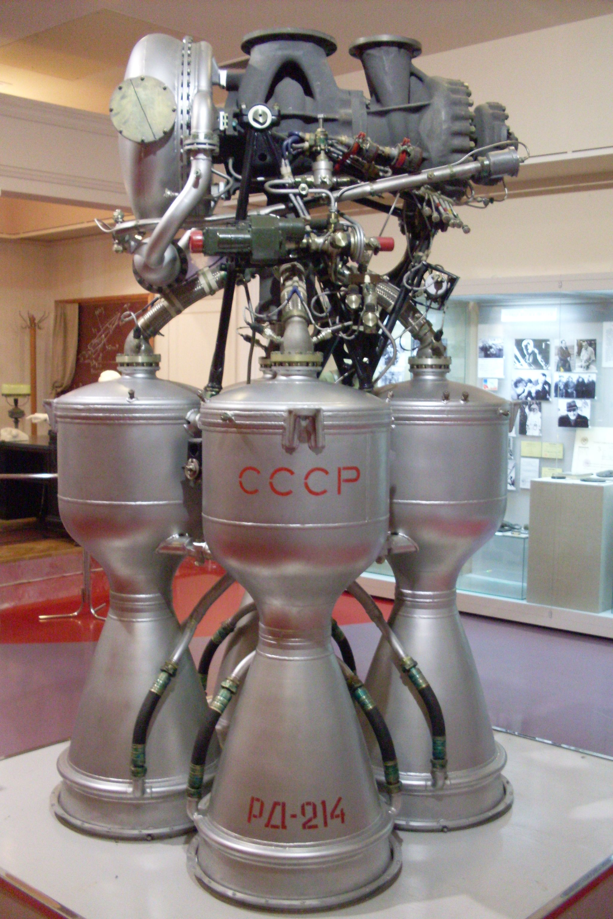 Rocket engine RD-214 at Memorial Museum of Astronautics (Moscow). Designed from 1952 to 1957 by OKB-456 lead by Valentin Glushko. Represents the first stage of the rocket Kosmos. OKB-456 offered it to the museum.